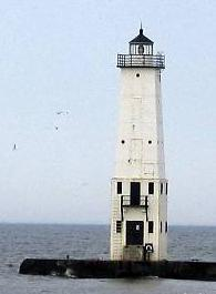 Frankfort Light